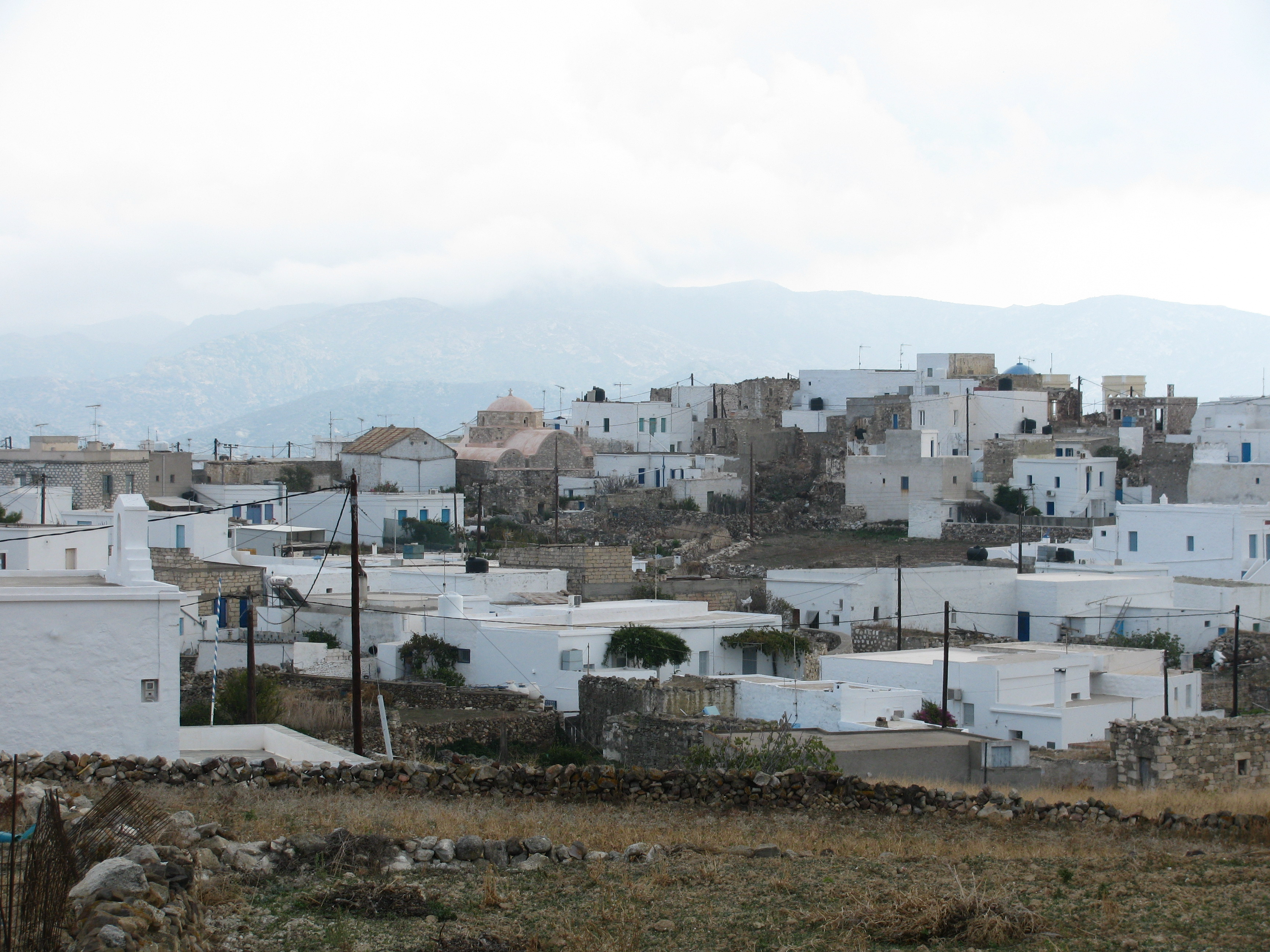 Kimolos Village